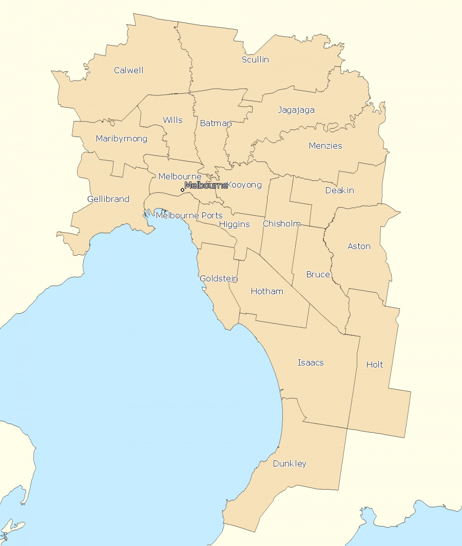 Incorporates or developed using Administrative Boundaries ©PSMA Australia Limited licensed by the Commonwealth of Australia under Creative Commons Attribution 4.0 International licence (CC BY 4.0). Derived from State and Territory Boundaries from the Australian Bureau of Statistics under Creative Commons Attribution 2.5 Australia license (CC BY 2.5 AU)